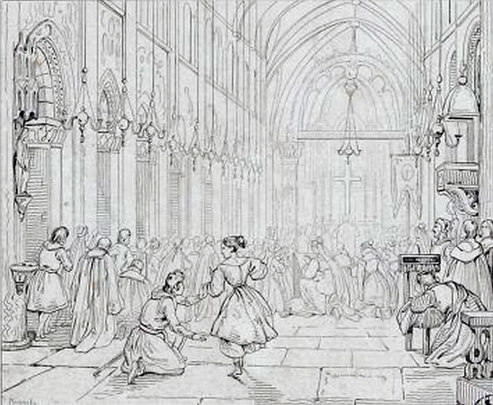 Stage set of the Act 5 of Robert le Diable